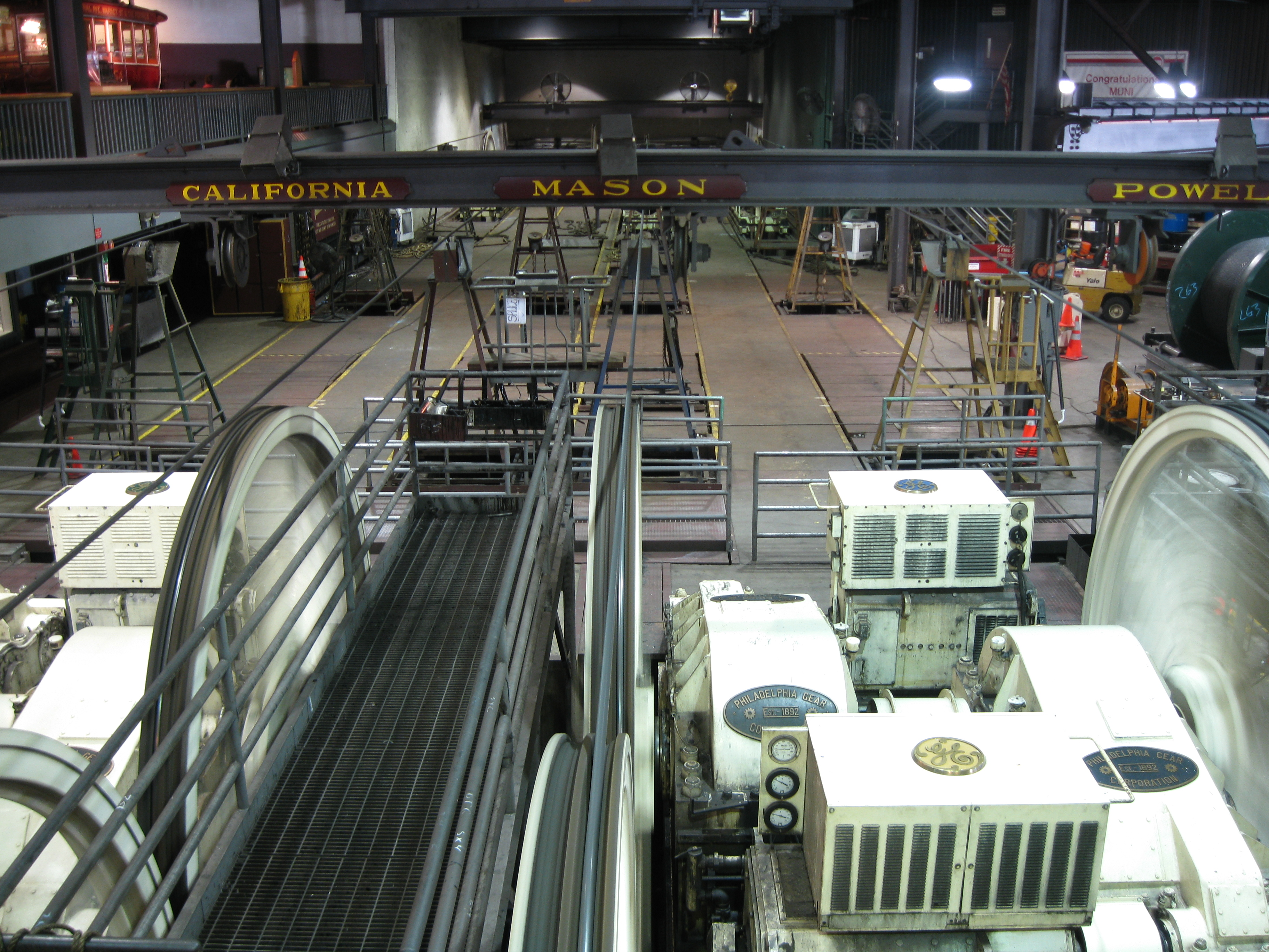 San Francisco Cable Car Museum photograph.